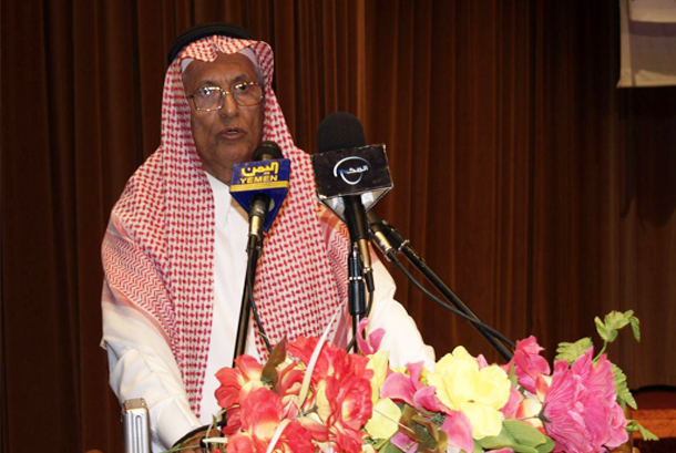 Hadramout University